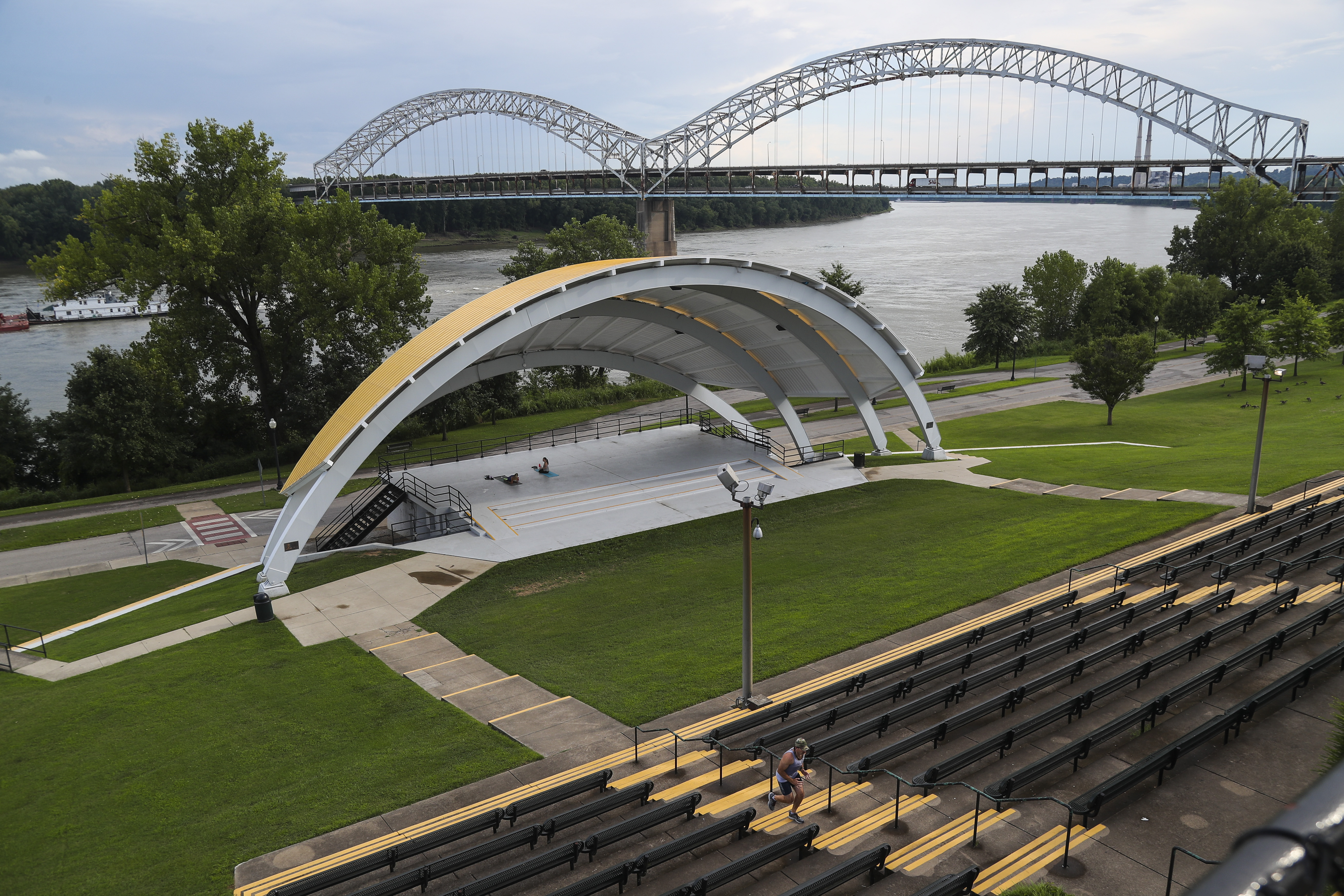 The New Albany Riverfront has an amphitheater with seating for concerts. The Sherman Minton Bridge is in the background, connecting Indiana to Kentucky.